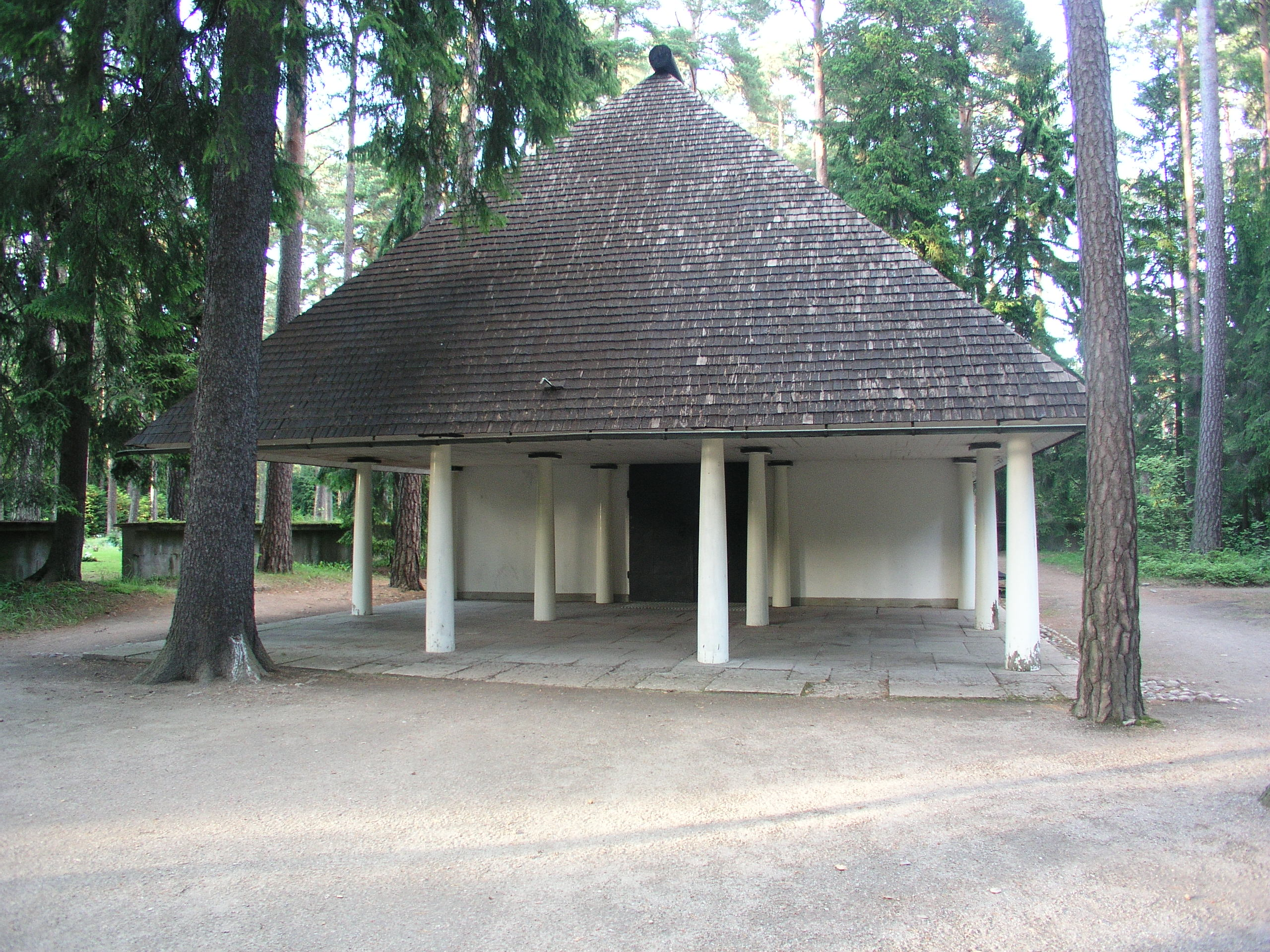 Skogskyrkogården, The Wood chapel. Foto: Xauxa 2003 The picture was taken the 5 of July 2003 by Håkan Svensson (Xauxa). No corrections have been done to the image.